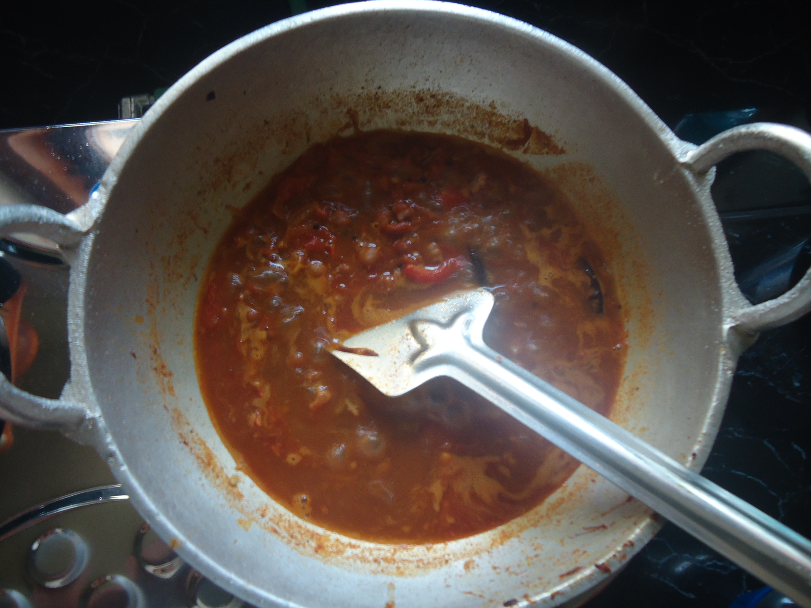 A curry made with kadala in Kerala